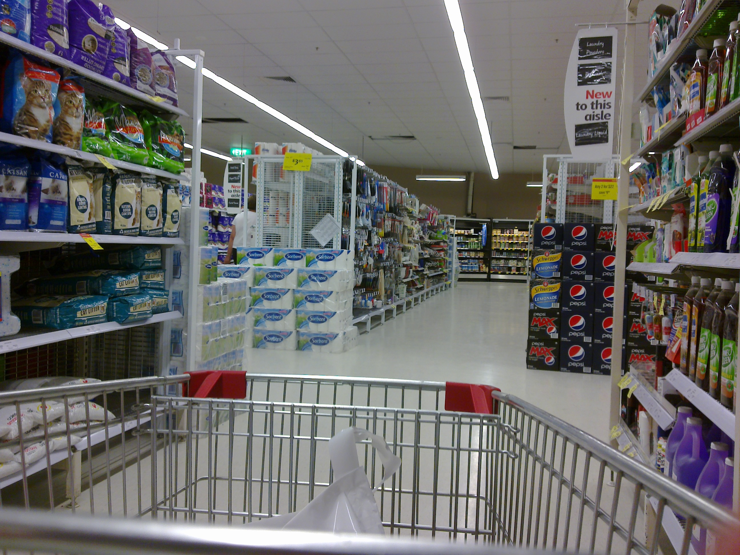 Shopping aisle of the new Coles South City extension.